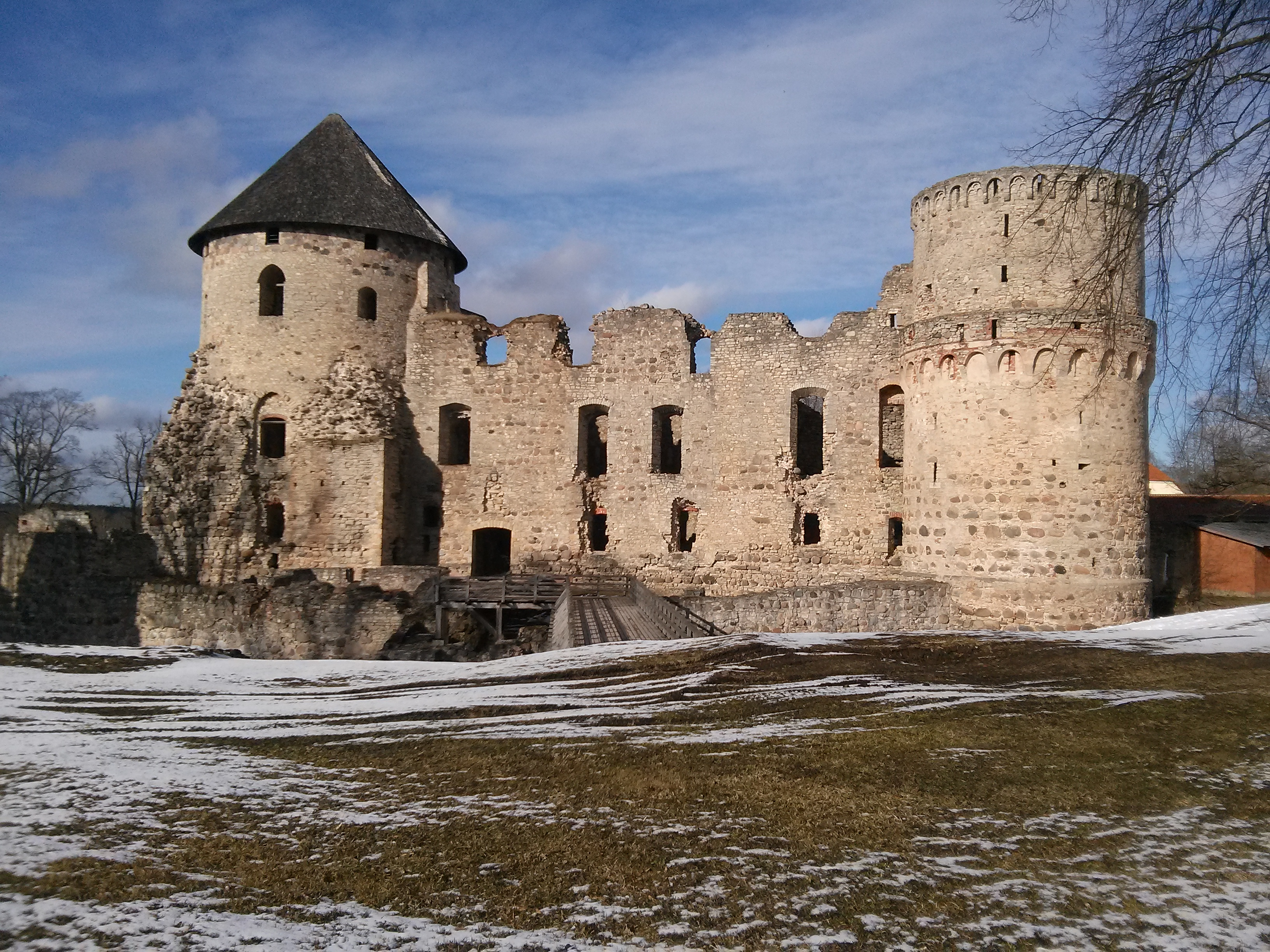 The start of spring next to Cesis Castle Ruins.